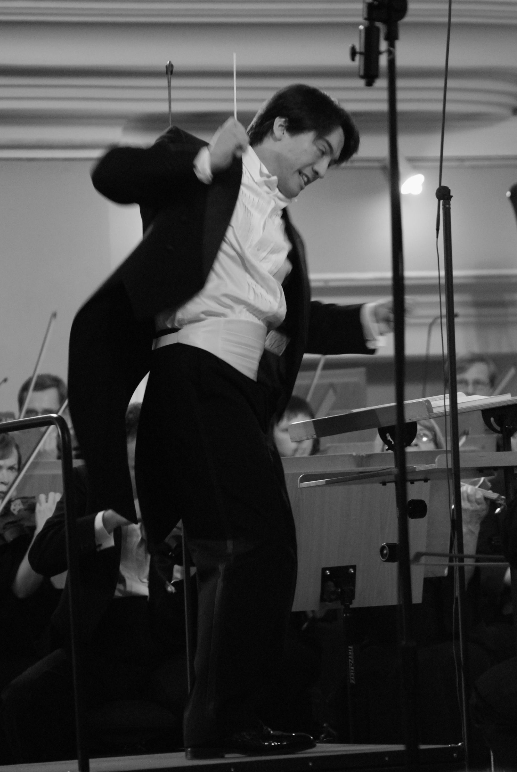 Eugene Tzigane 1st Prize during The 8th Grzegorz Fitelberg International Competition for Conductors in Katowice